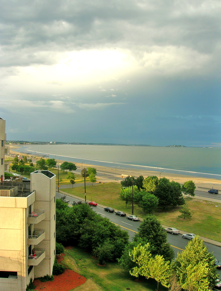 Causevic